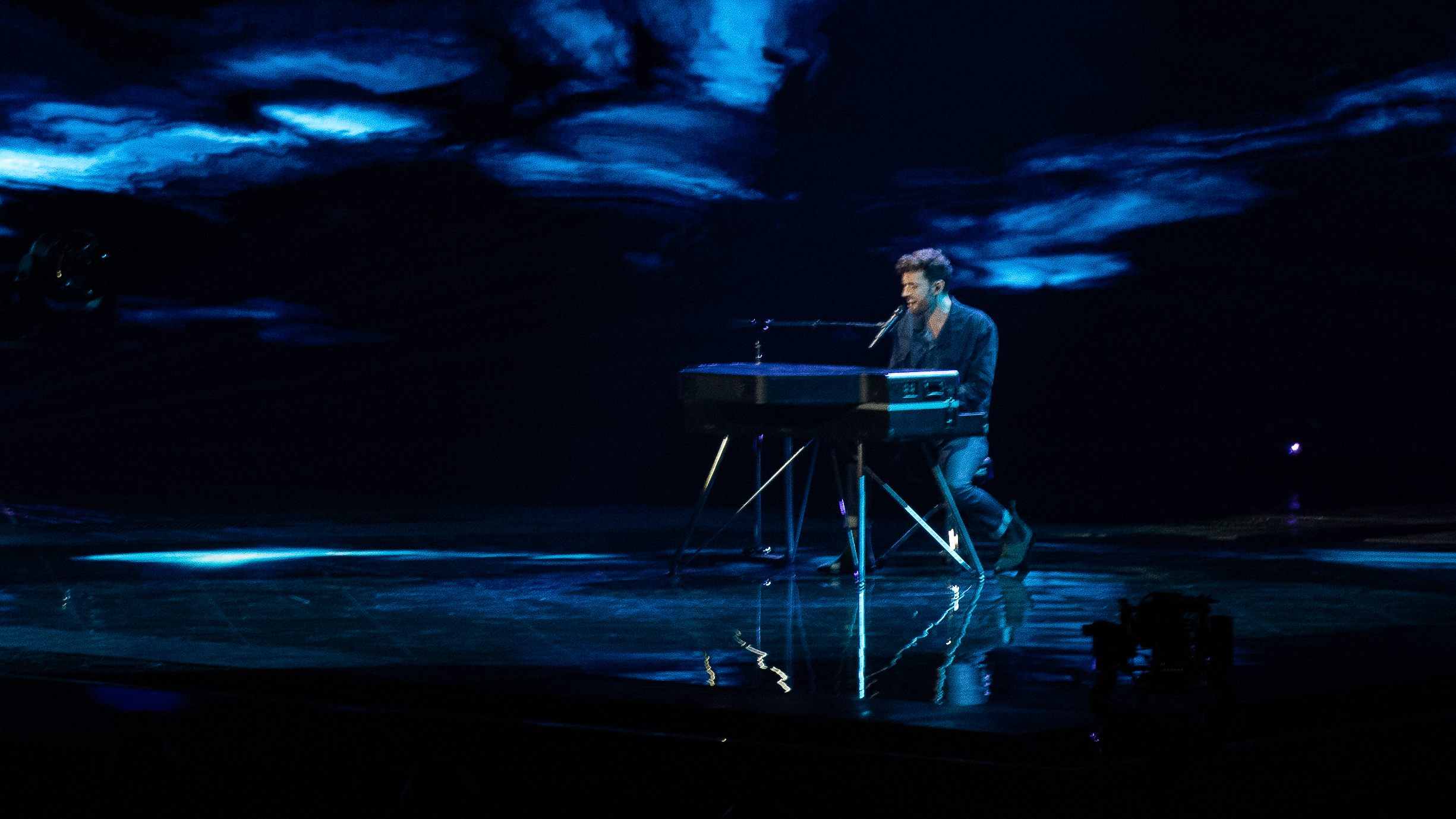 At the 2019 Eurovision Song Contest Semi-final 2 dress rehearsal